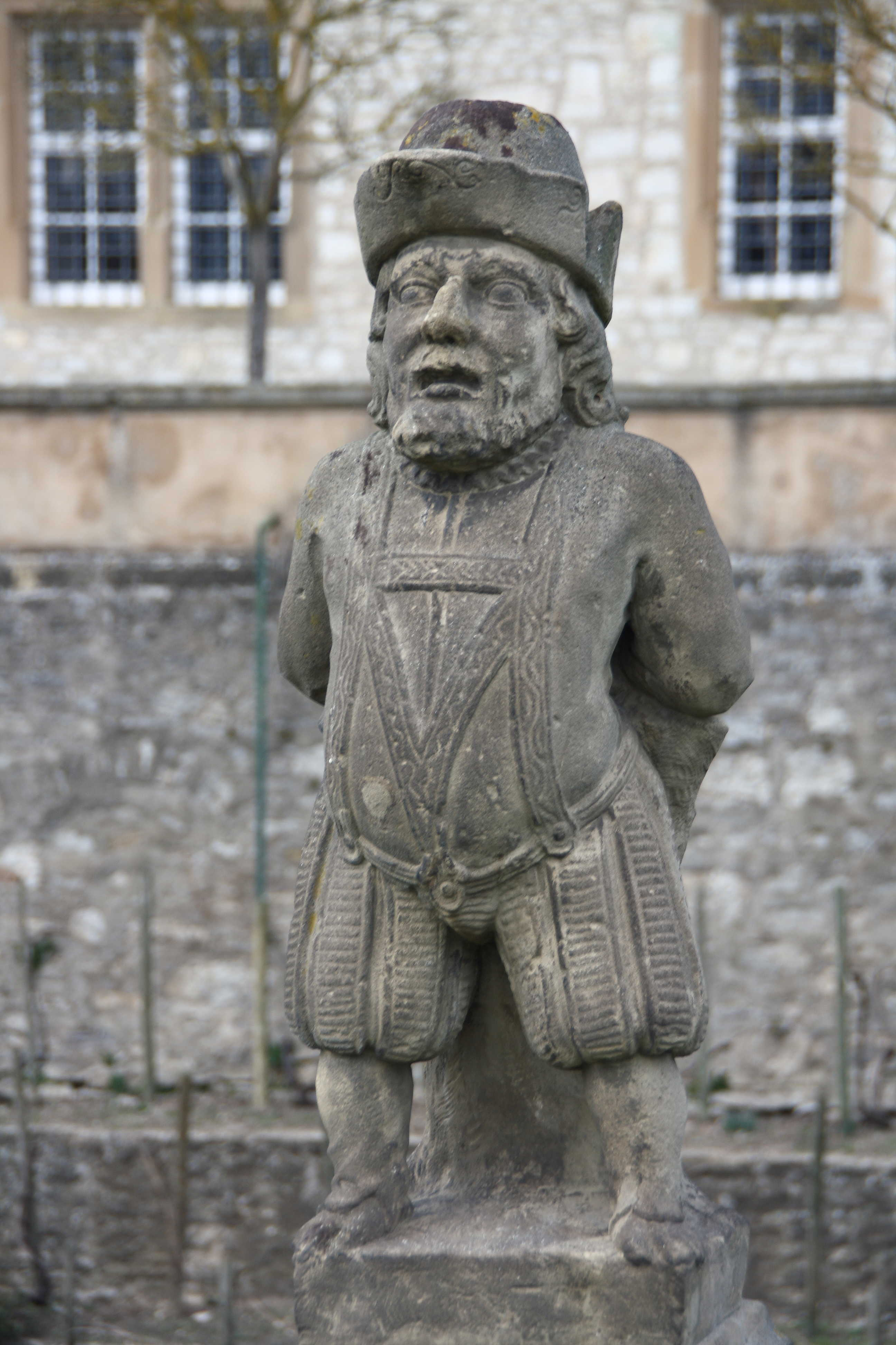 The court counsellor